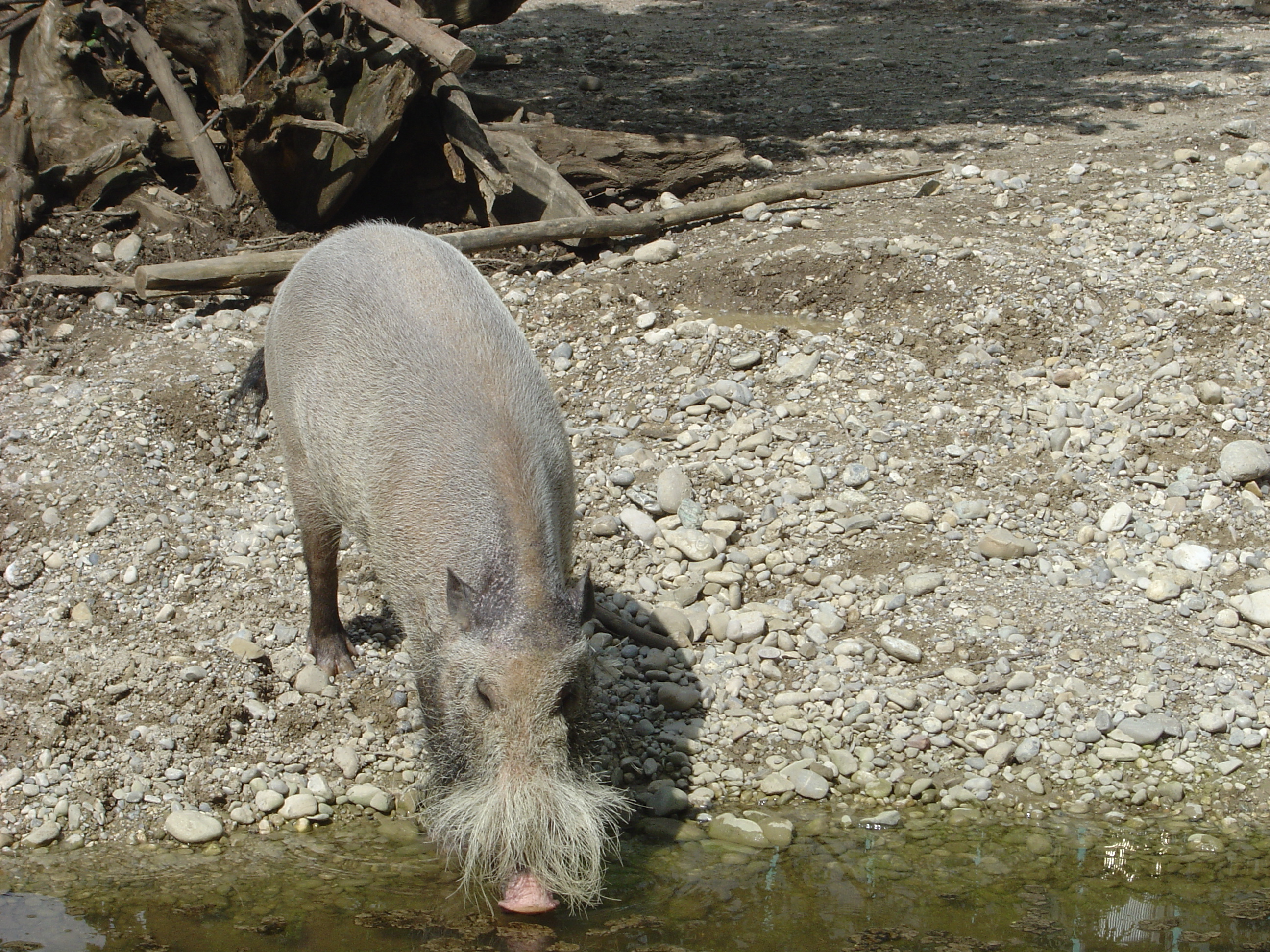 Bearded pig, Tierpark Hellabrunn, Munich, Germany